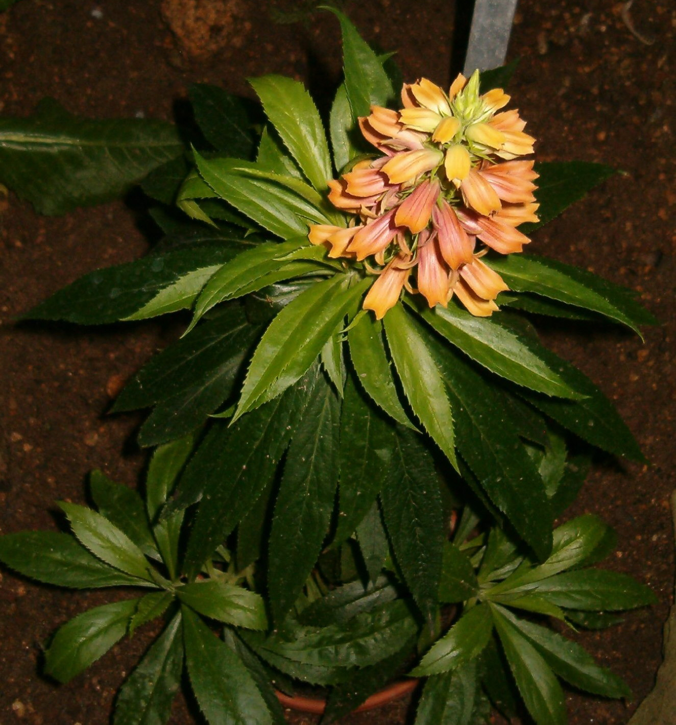 Location: Botanical Gardens Berlin Dahlem Habitus and Inflorescence